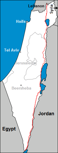 Route 90 drawing.